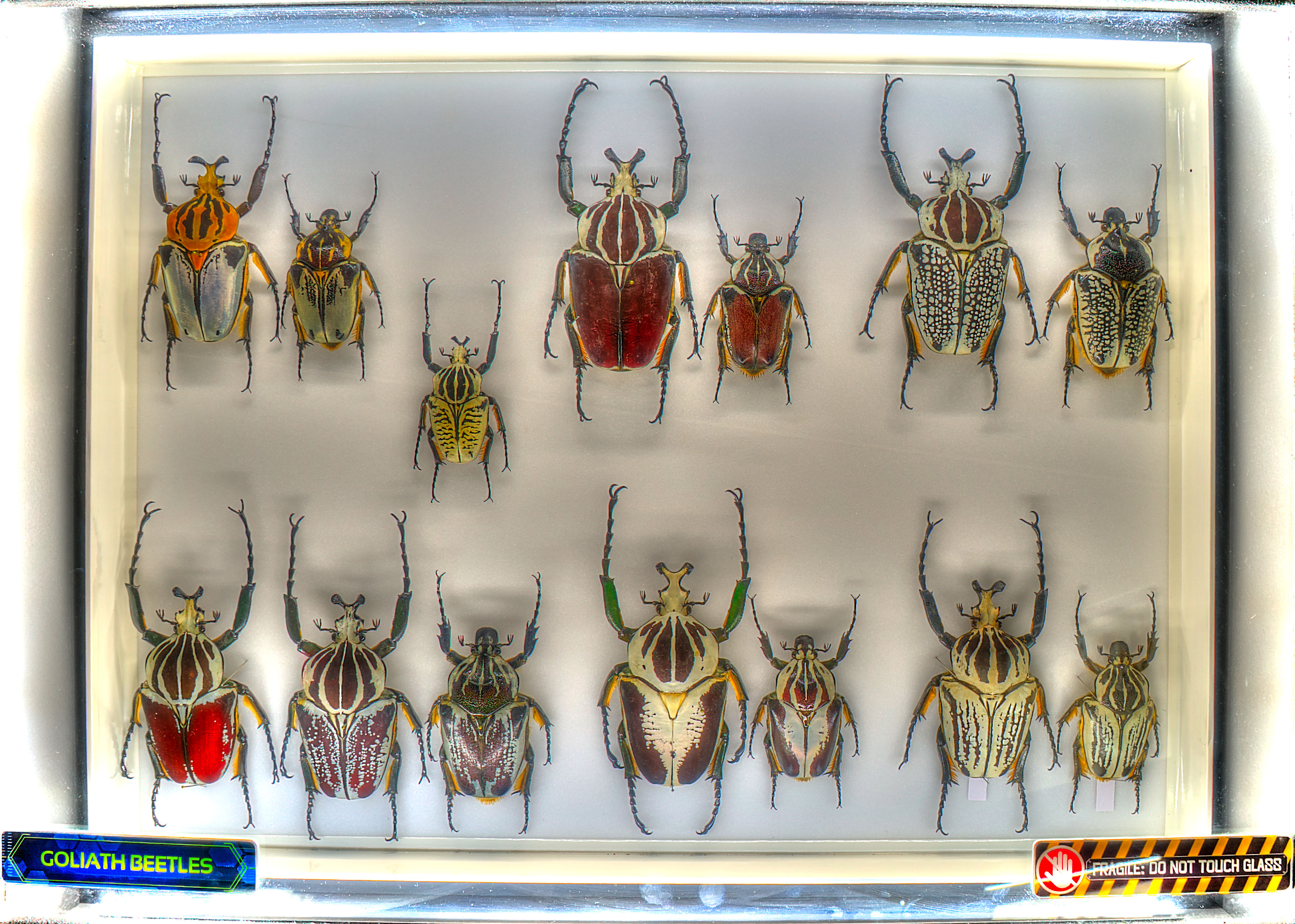 detail of goliath beetles